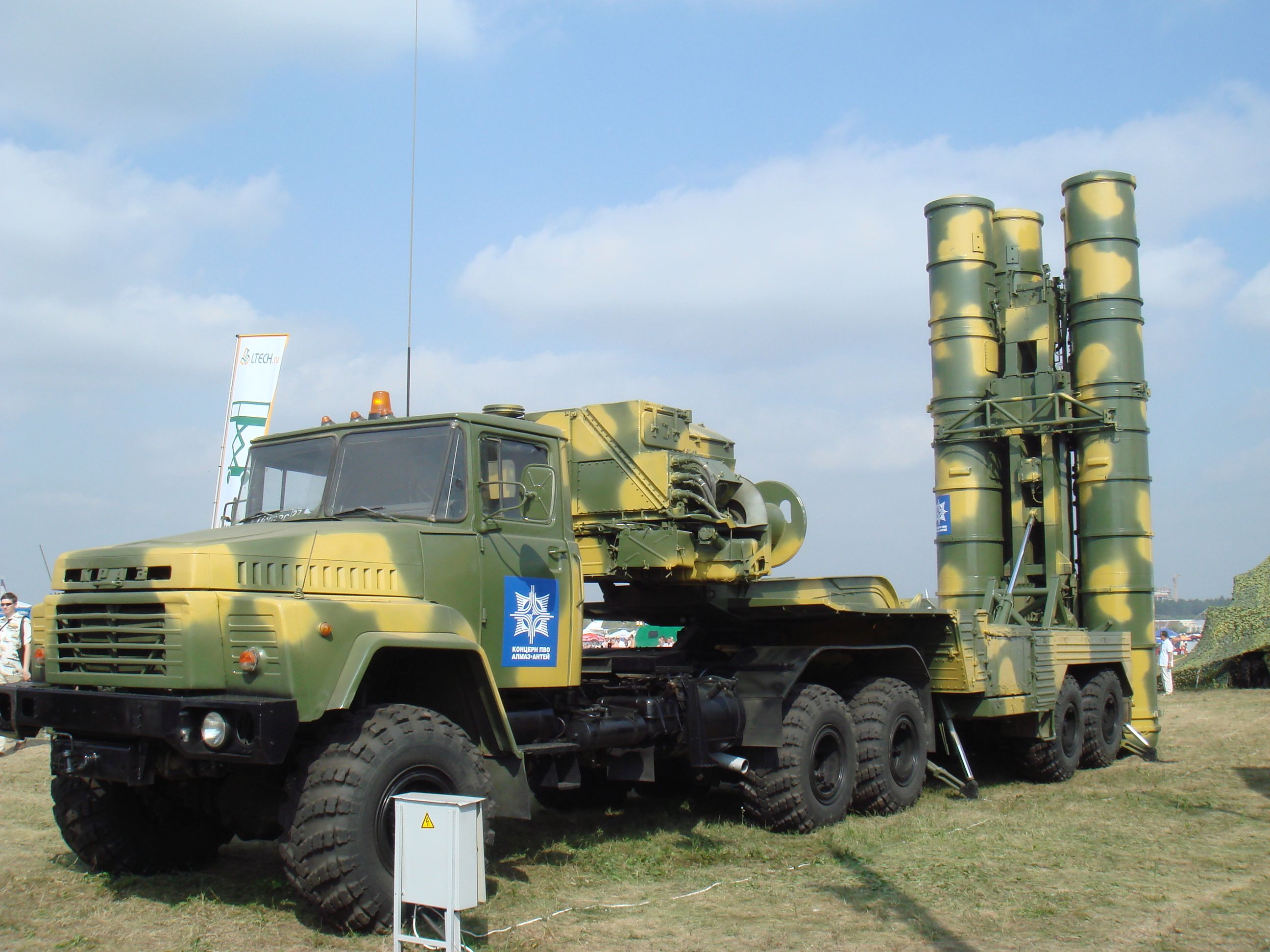 SAM S-300PMU2 "Favorit" with tractor-trailer KrAZ-260 at the «MAKS 2007», 25 August 2007. See also Вестник ПВО :: «МАКС-2007», Вестник ПВО :: ЗРС С-300П and Зенитно ракетный комплекс ЗРК C300.